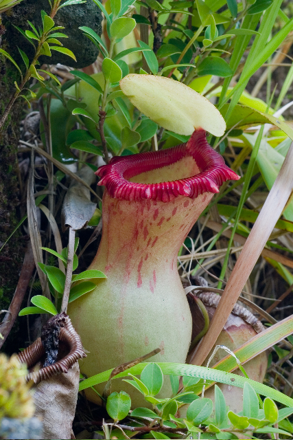 Nepenthes ventricosa photographed on the Mayon Volcano, Luzon (Alastair Robinson, June 2007) - lower pitcher.